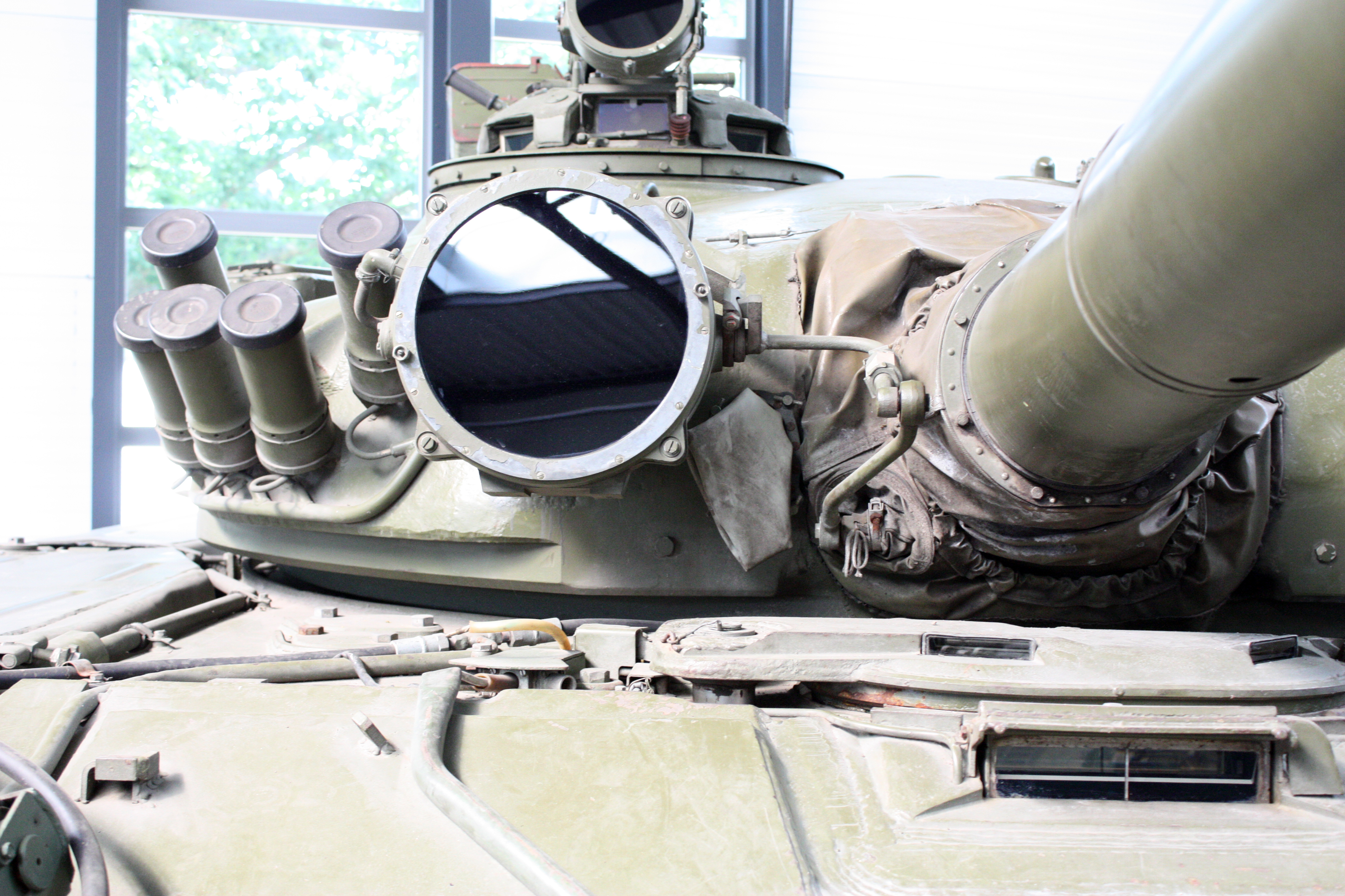 German Tank Museum